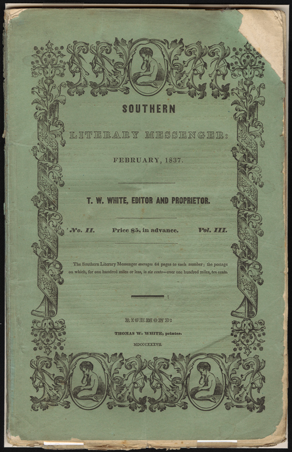 The cover of the February, 1837 issue of the Southern Literary Messenger, published in Richmond, VA, by Thomas W. White, containing the second installment of "The Narrative of Arthur Gordon Pym" by Edgar Allan Poe.